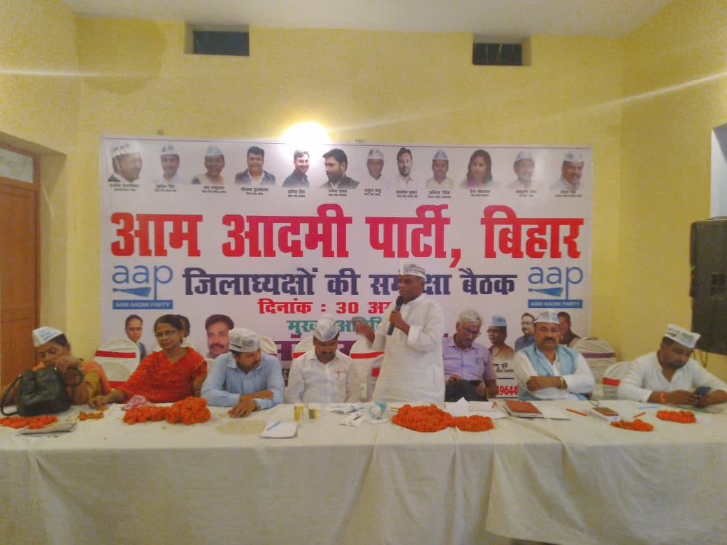 In this image, Shatrughan Sahu is speaking in a district analysis meeting of the Aadmi Party Bihar unit. He is addressing the district heads of the Aadmi Party.